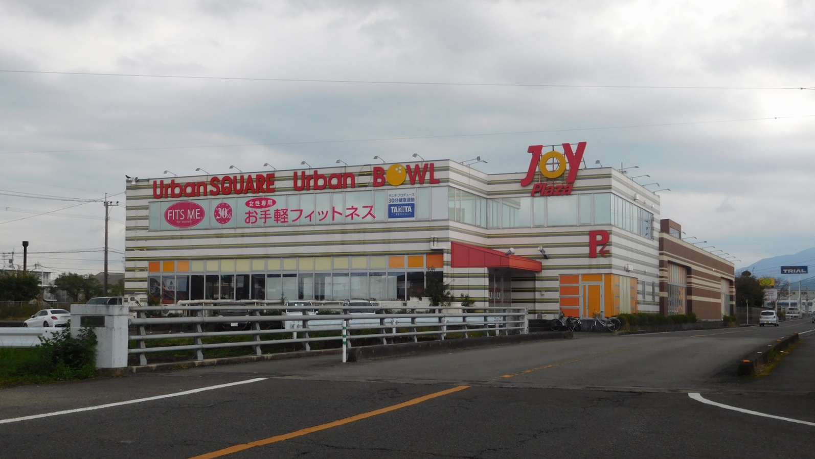 Joy Plaza, is an Amusement Arcade (Miyakonojo City, Miyazaki Prefecture, Japan)